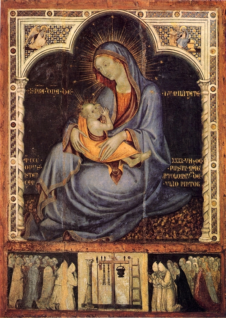 Bartolomeo da Camogli, Madonna dell'Umiltà, 1346, Galleria Regionale della Sicilia, Palermo, Italy.